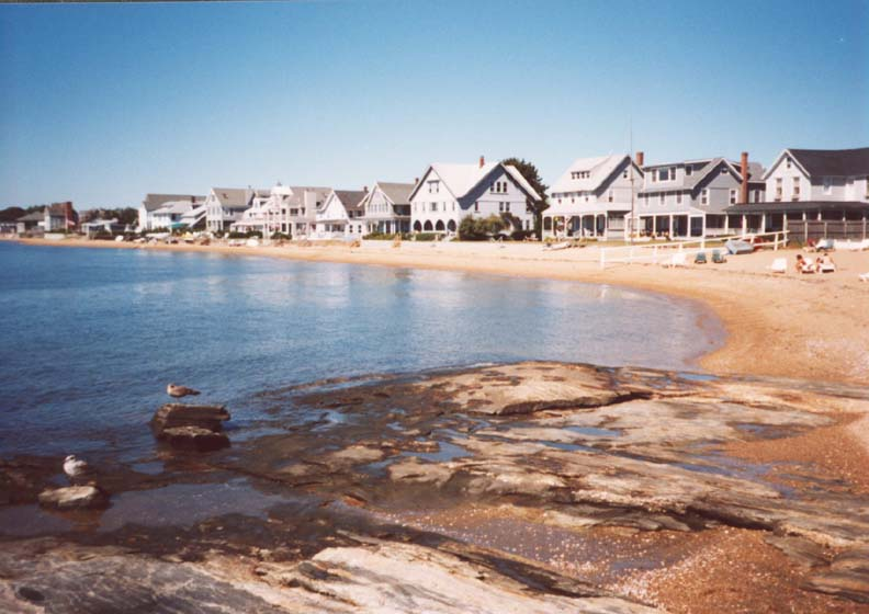 A picture taken in 2004 of the beachfront in Madison Connecticut.